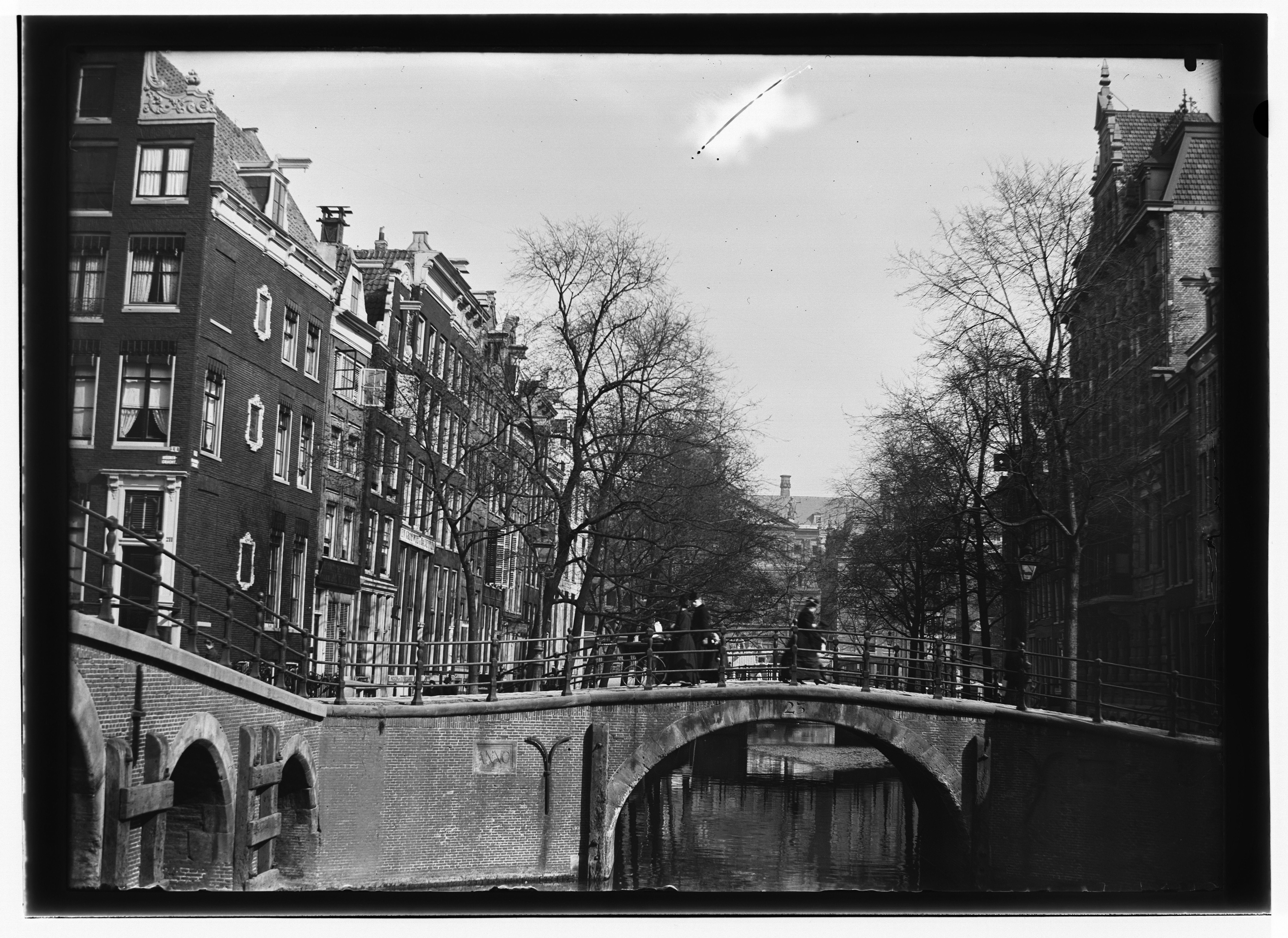 The Warmoesgracht canal in Amsterdam with the old bridge 23 in the year 1894. Later that year this canal was filled in order to create a new street, the Raadhuisstraat; (number 23 was later given to another bridge). On the left is bridge 22. The water in front is the Herengracht which is still a canal, but now at this place covered by a wider bridge 22.